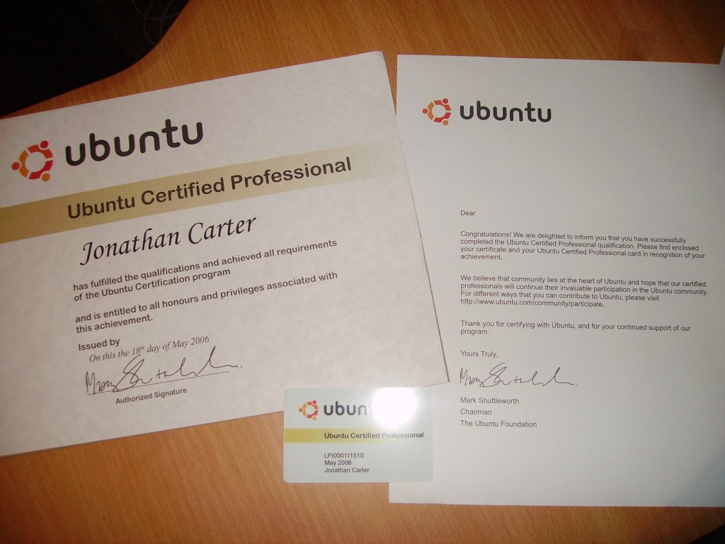 Photo of Ubuntu Certificate